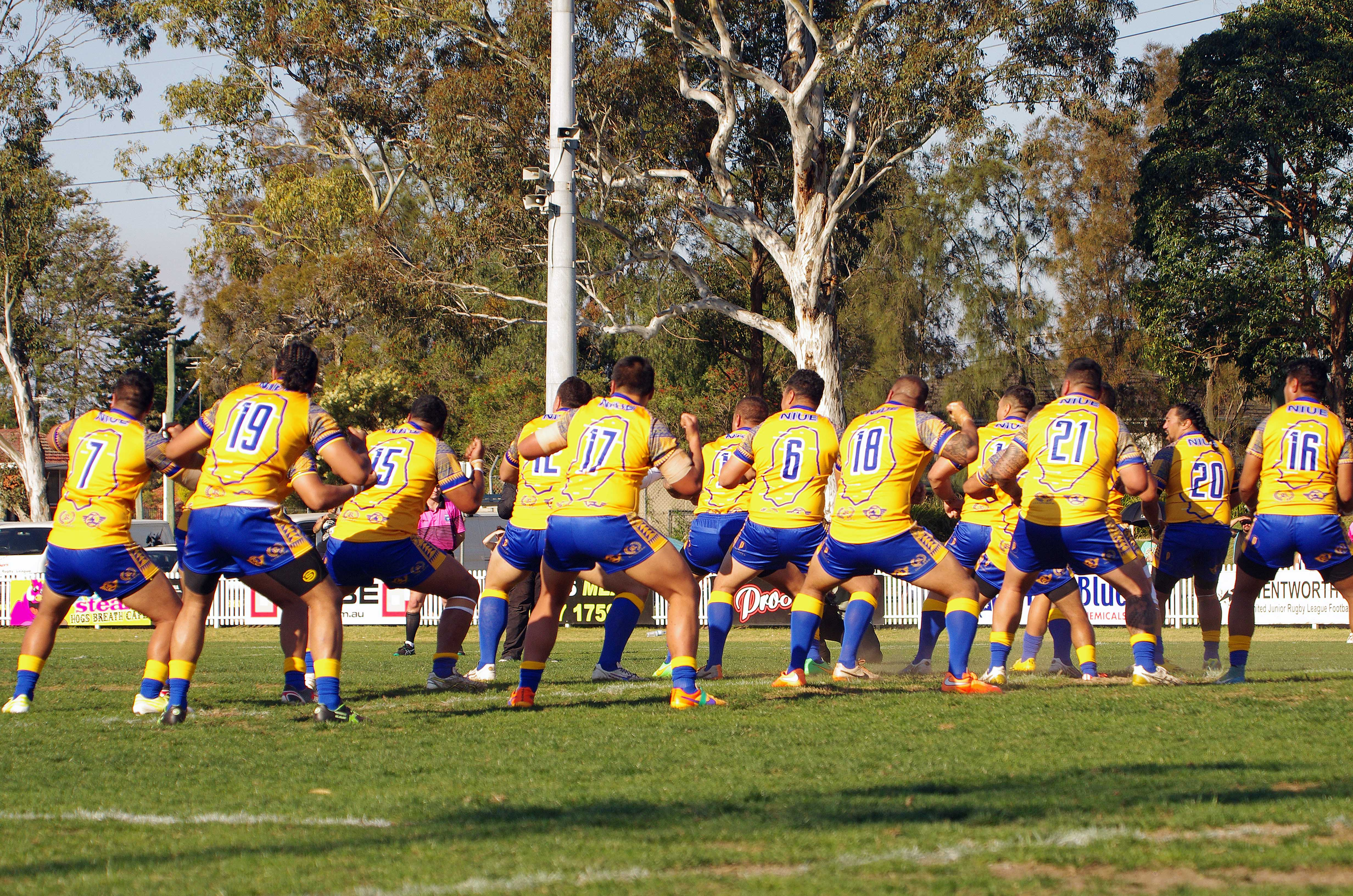 Niue national rugby league team performing it’s war cry, takalo, before a test match against the Cook Islands.